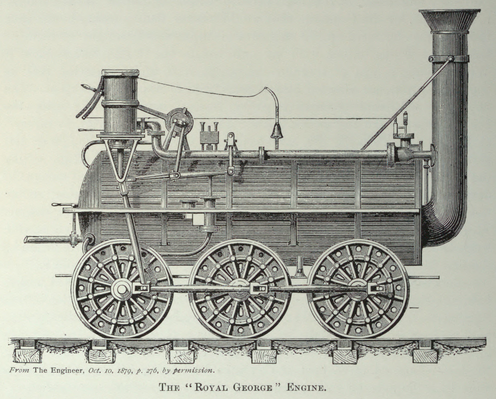 The Royal George steam locomotive, used on the Stockton and Darlington Railway. From The Engineer, 10 October 1879, used by permission.